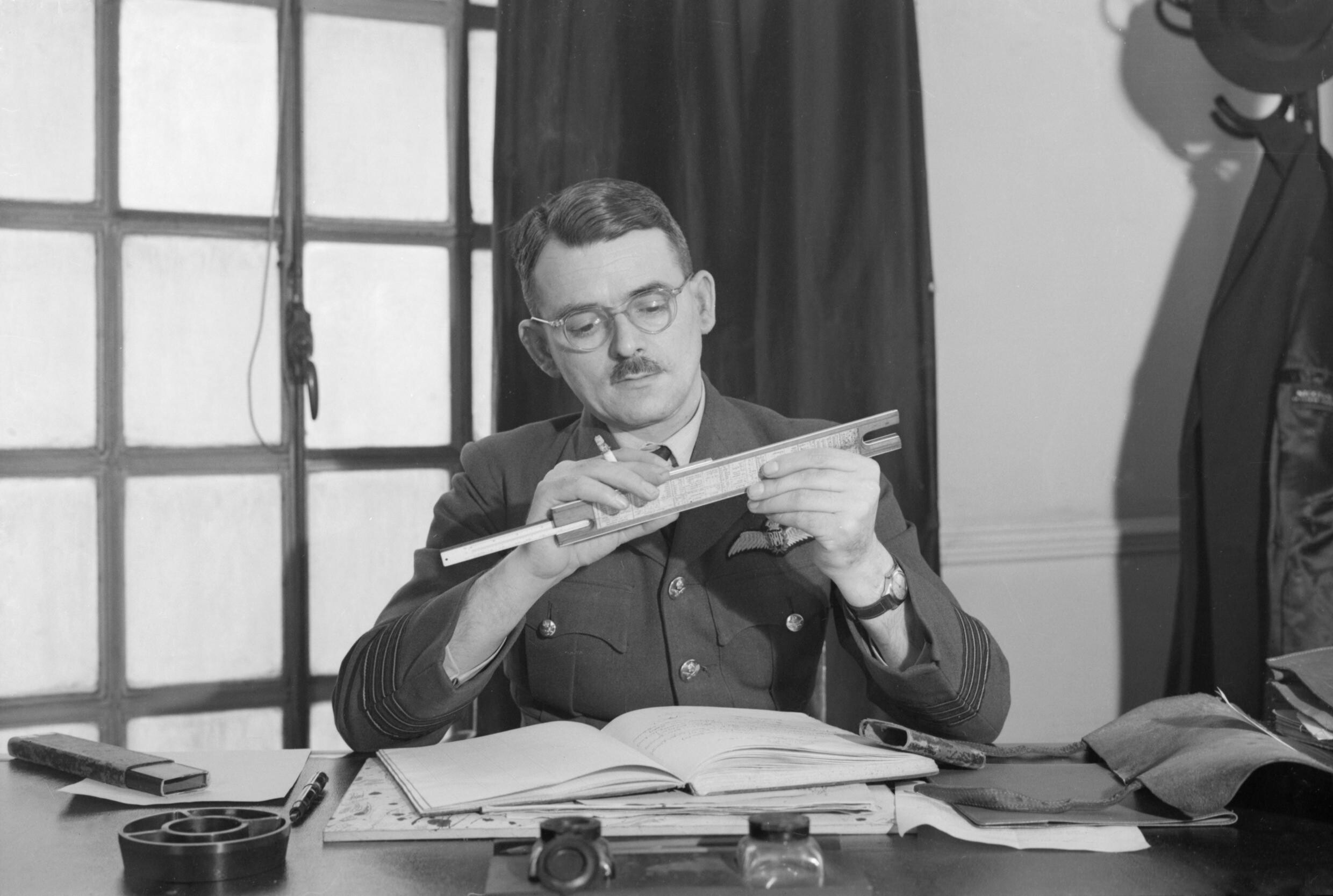 Frank Whittle adjusts a slide rule while seated at his desk at the Ministry of Aircraft Production.